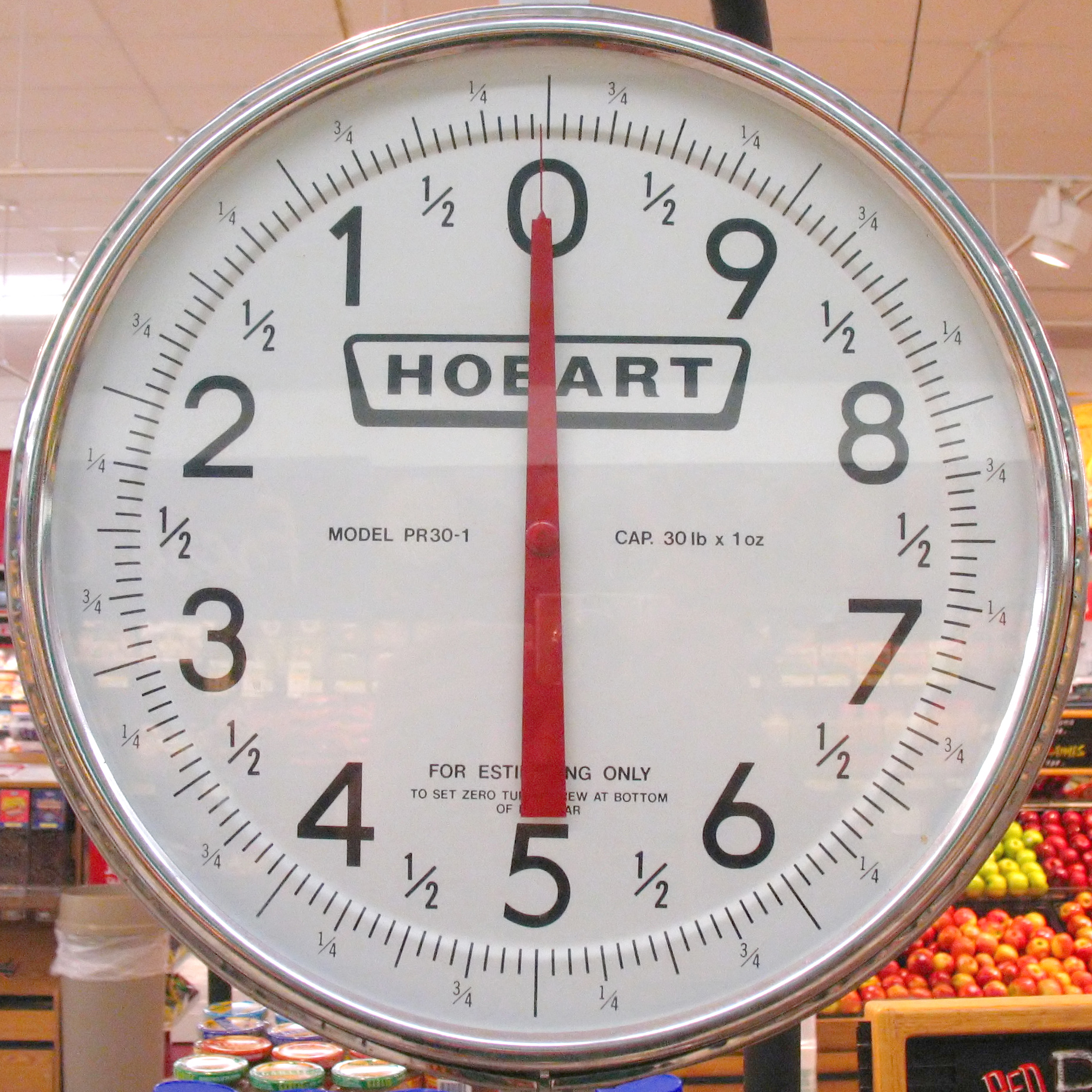 Hobart Produce Scale